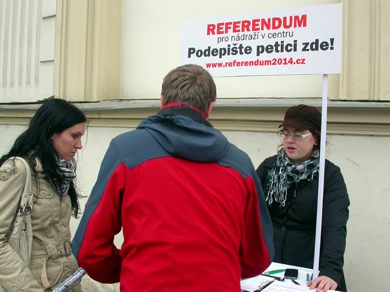 Brno Central station referendum . petiton proces